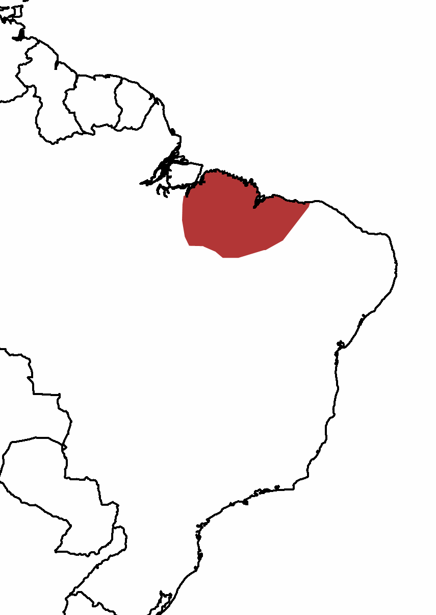 Buff-browed Chachalaca Ortalis superciliaris. Distribution.